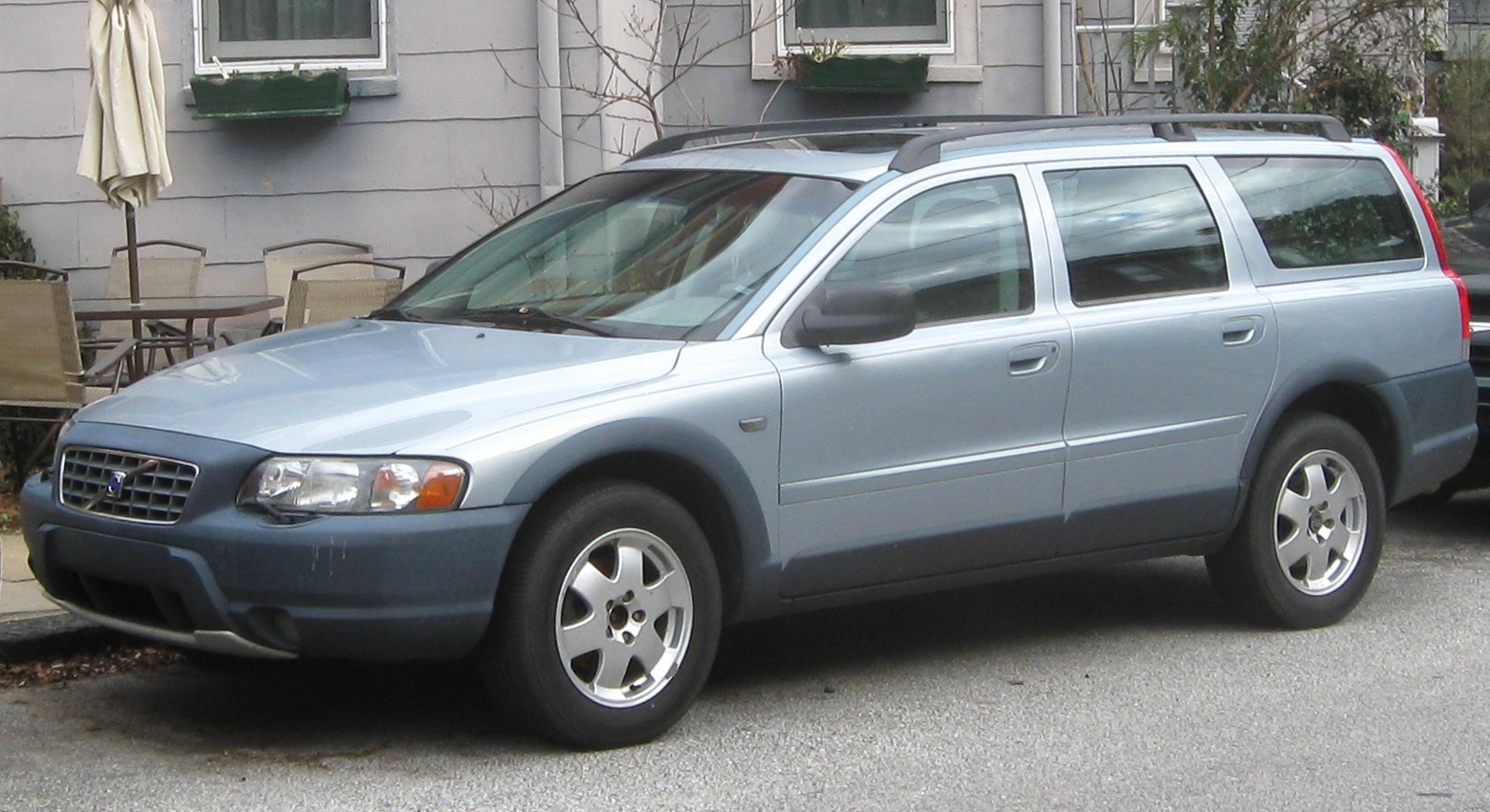 Volvo XC70 photographed in Annapolis, Maryland, USA.